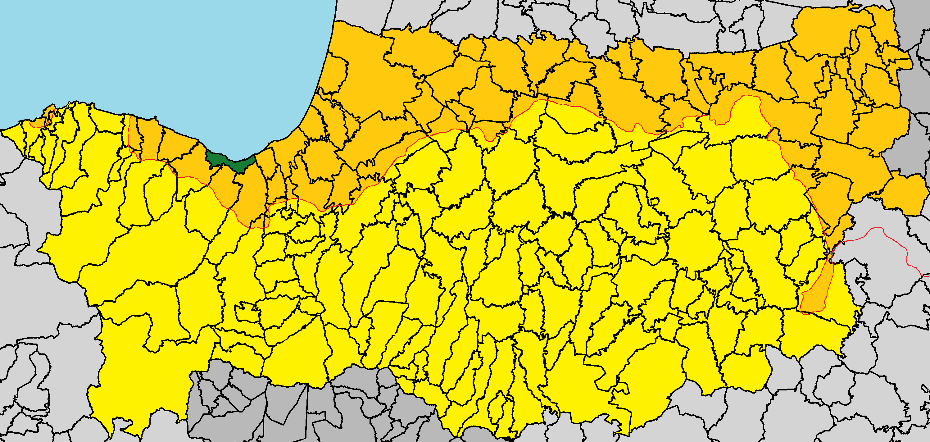 Karavostasi in Nicosia District (de jure).